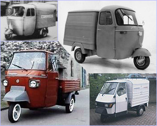 Collage of Piaggio Ape P50.